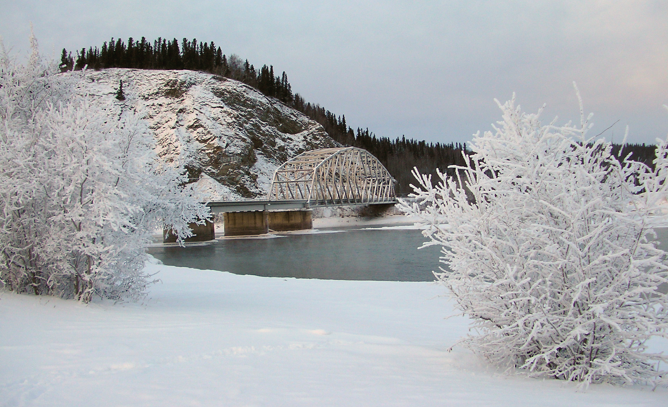 Alaska Highway bridge over Tanana River